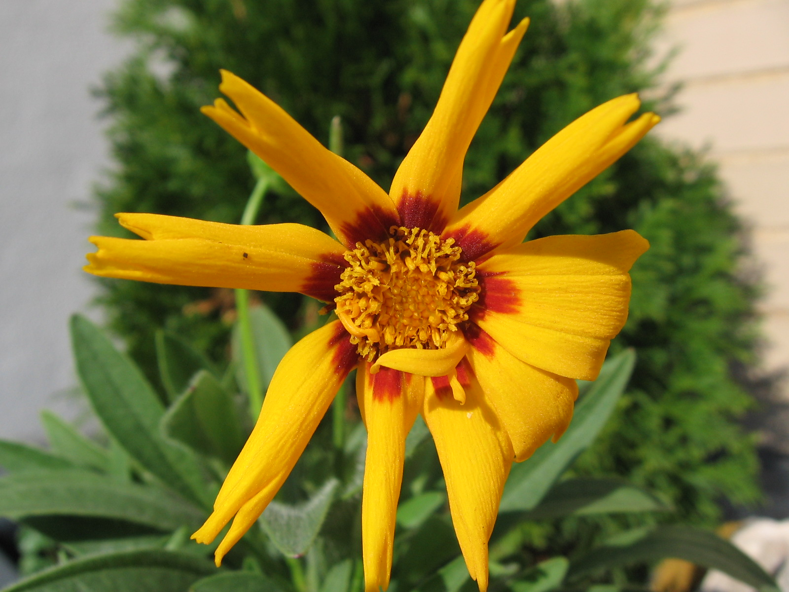 Coreopsis grandiflora